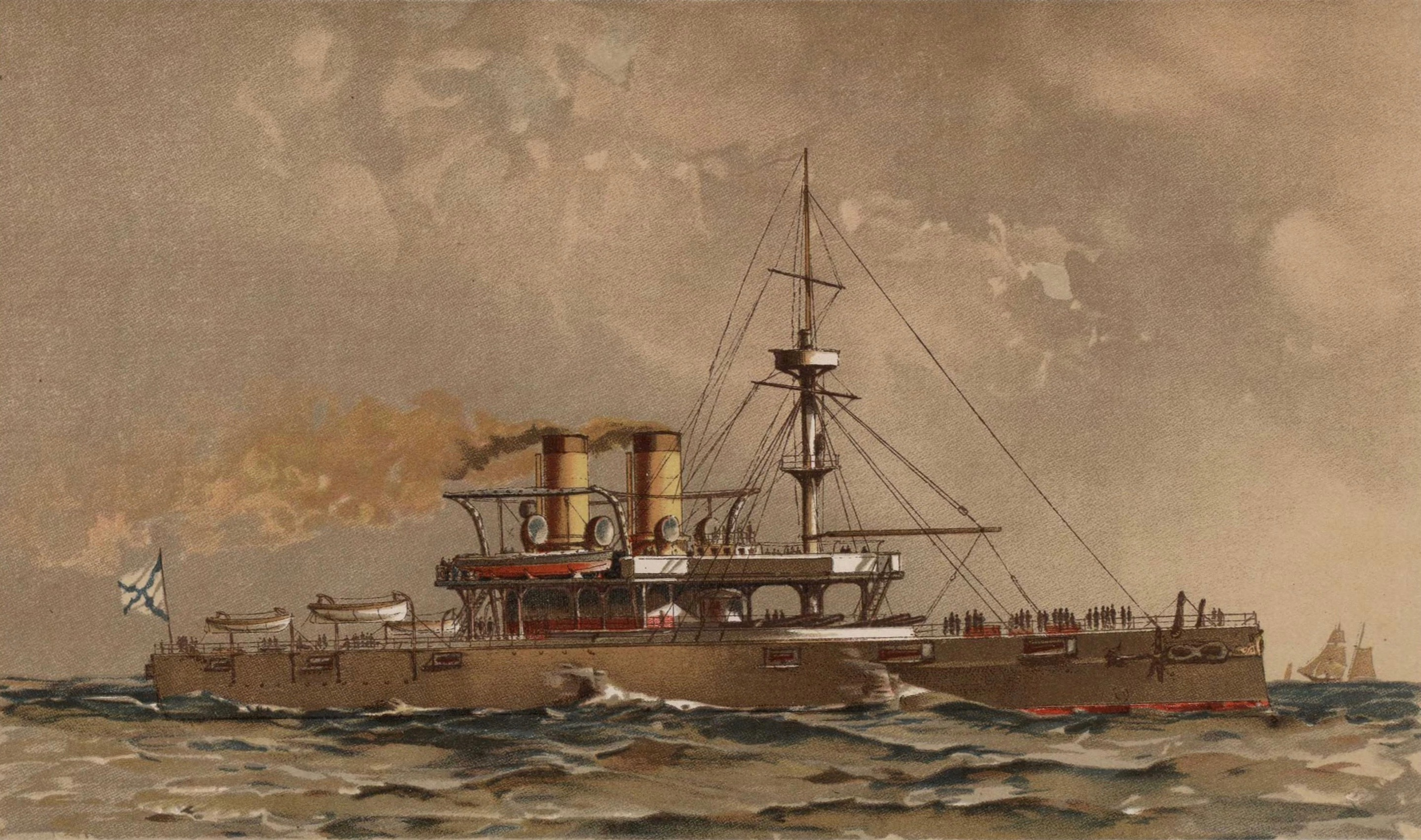 Ekaterina II (ironclad warship)